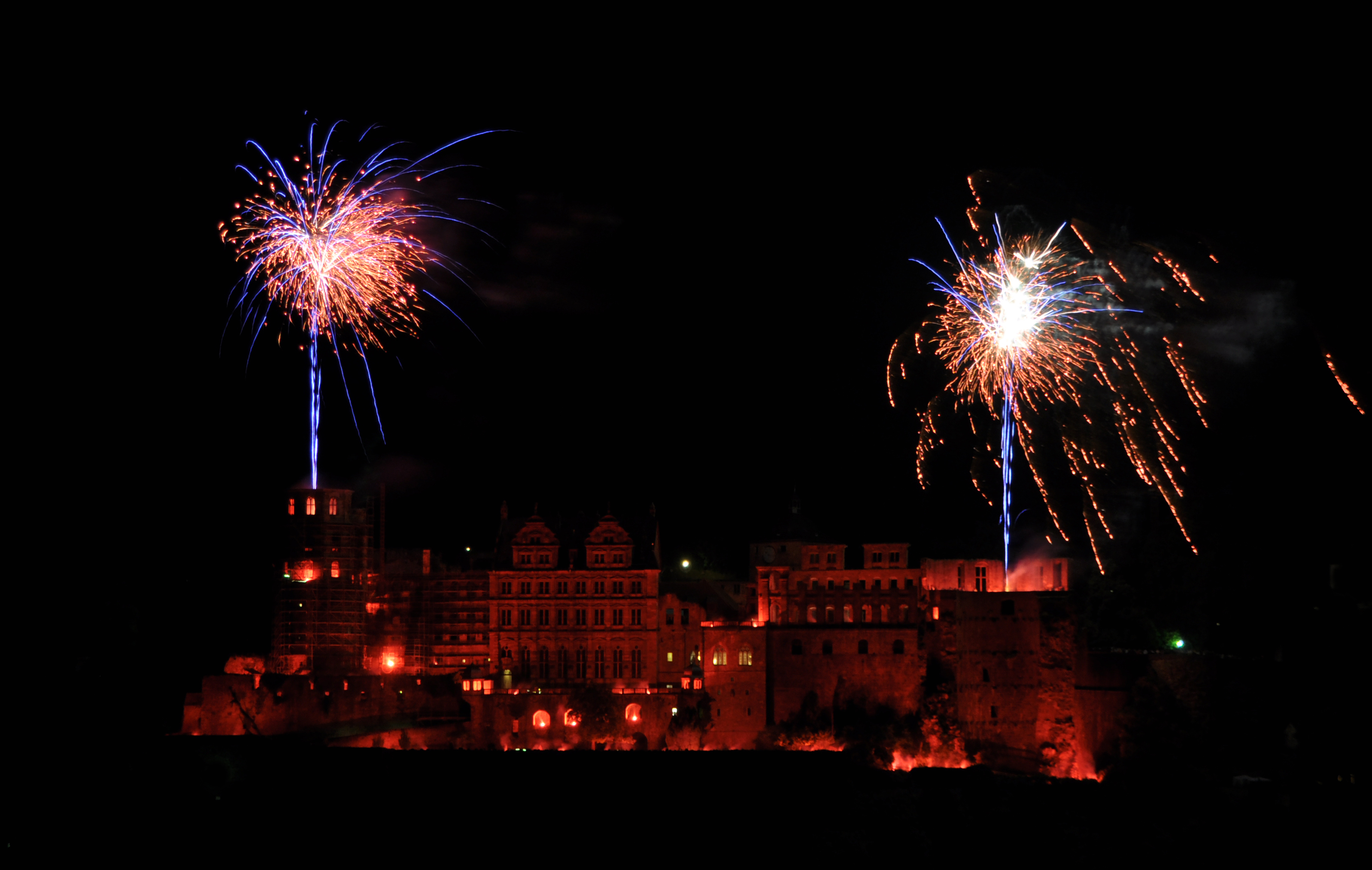 Heidelberg castle